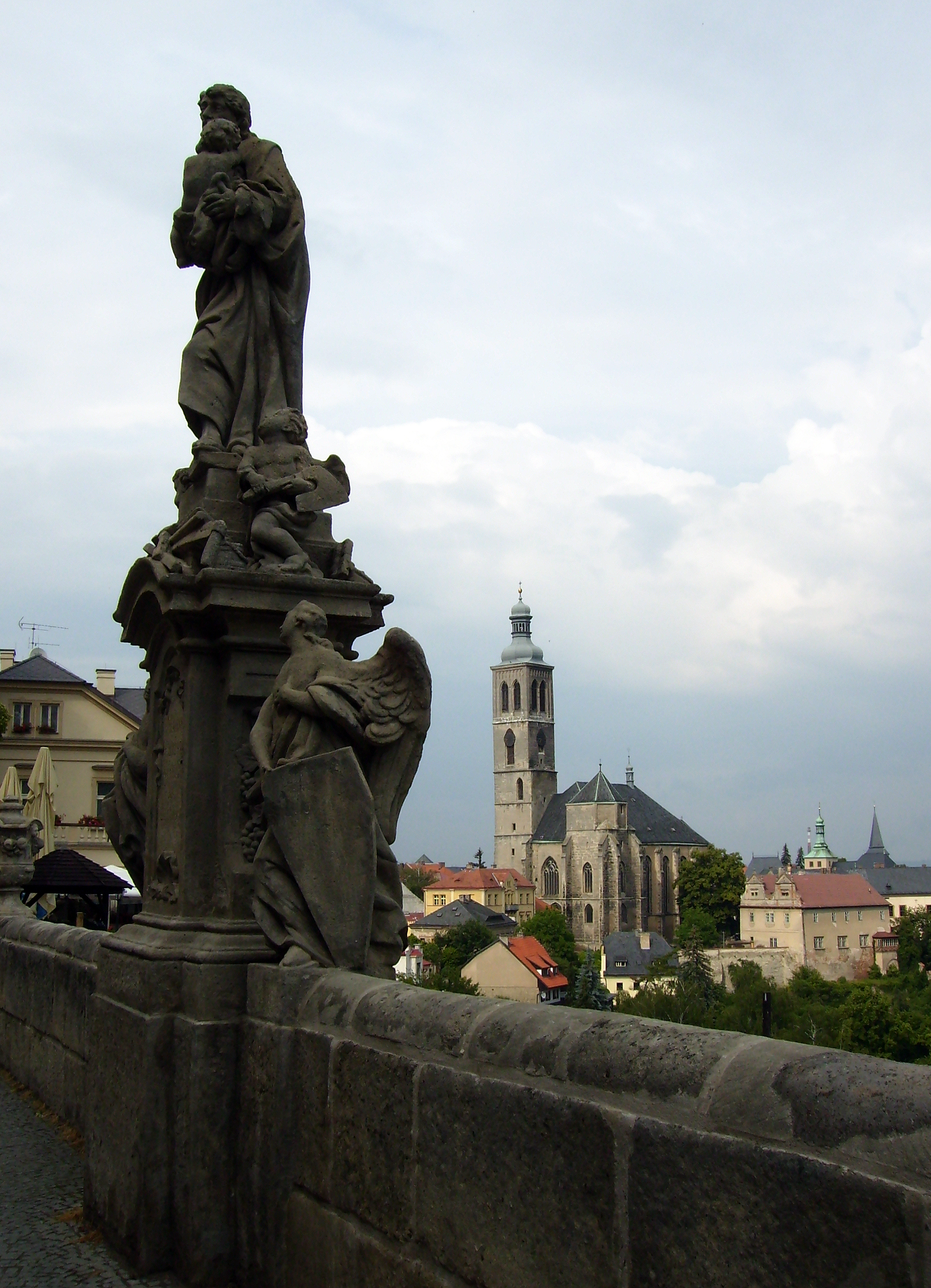 View at Kutná hora